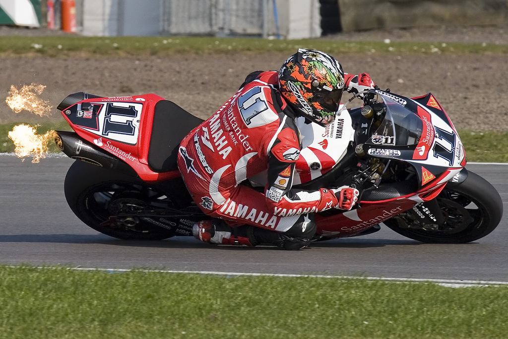 WSBK race at Donington park, April 1st 2007